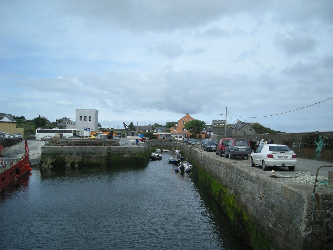 The pier and harbour of Cleggan Village, western Connemara, County Galway, Ireland. Photo taken 26 June 2007, morning.